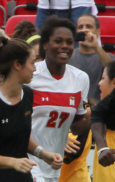 Our girls carried the flag before the game.